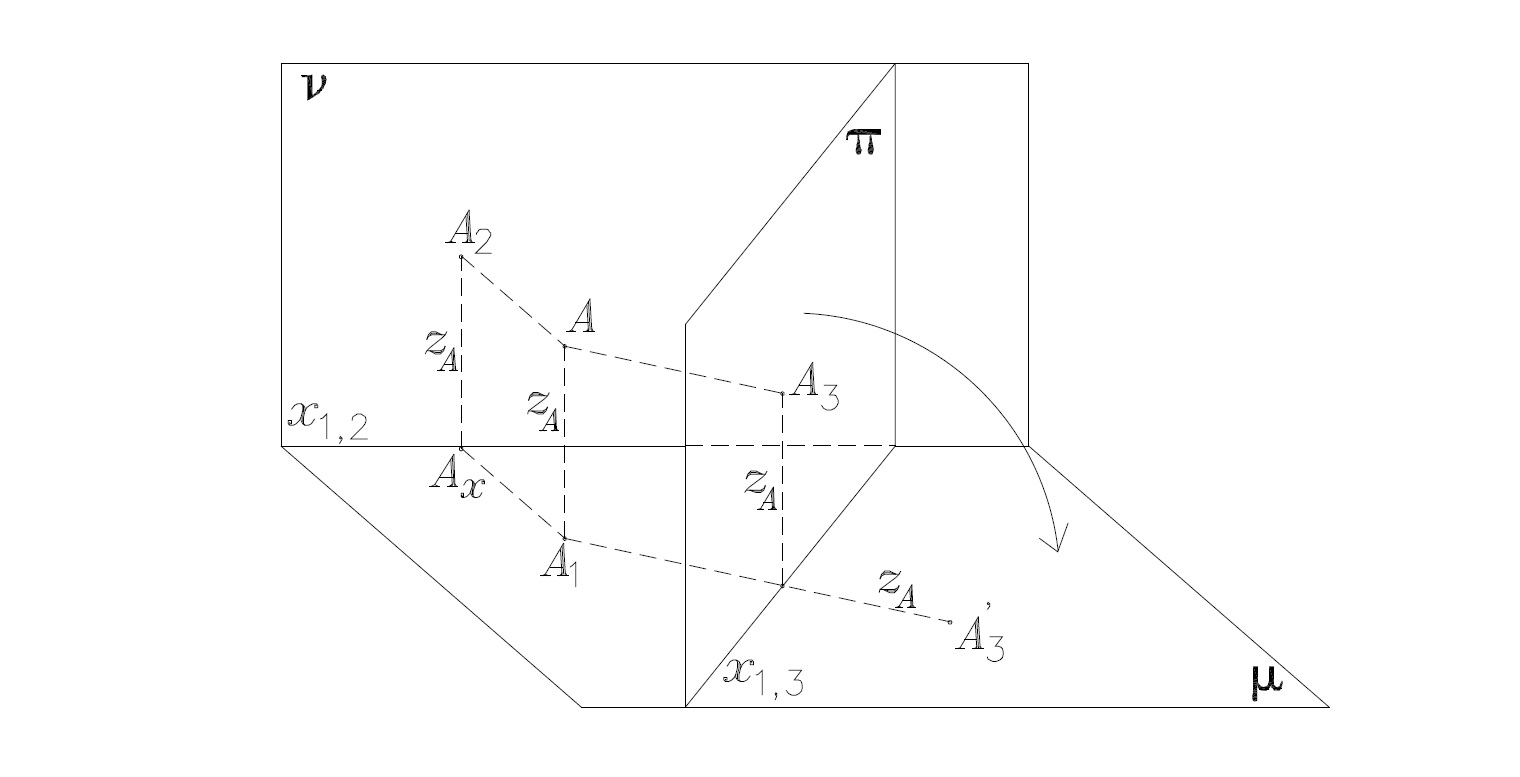 Помощни проекционни равнини